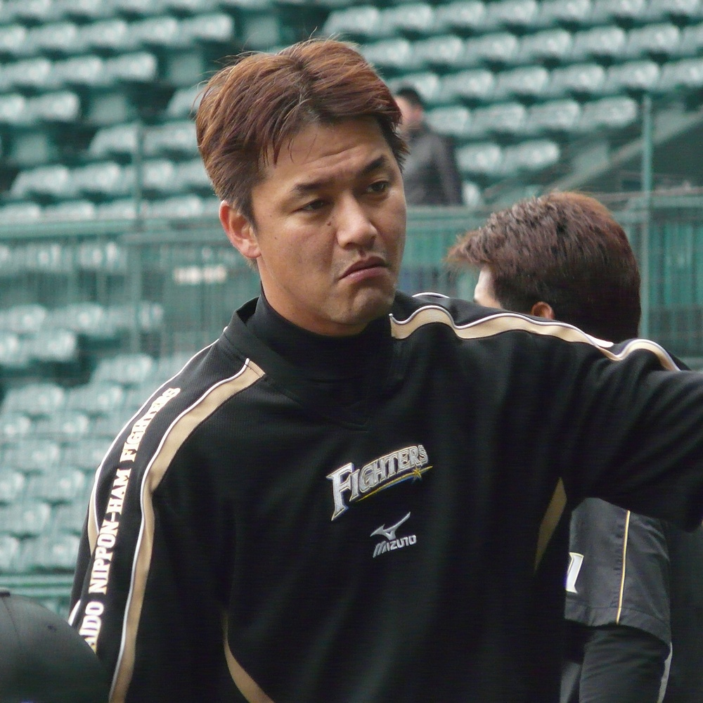 NF-Makoto-Kaneko20120310